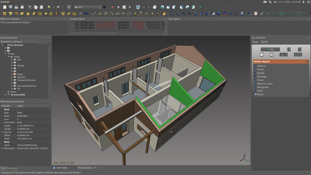 A Freecad screenshot: "Rockn house" by rockn.